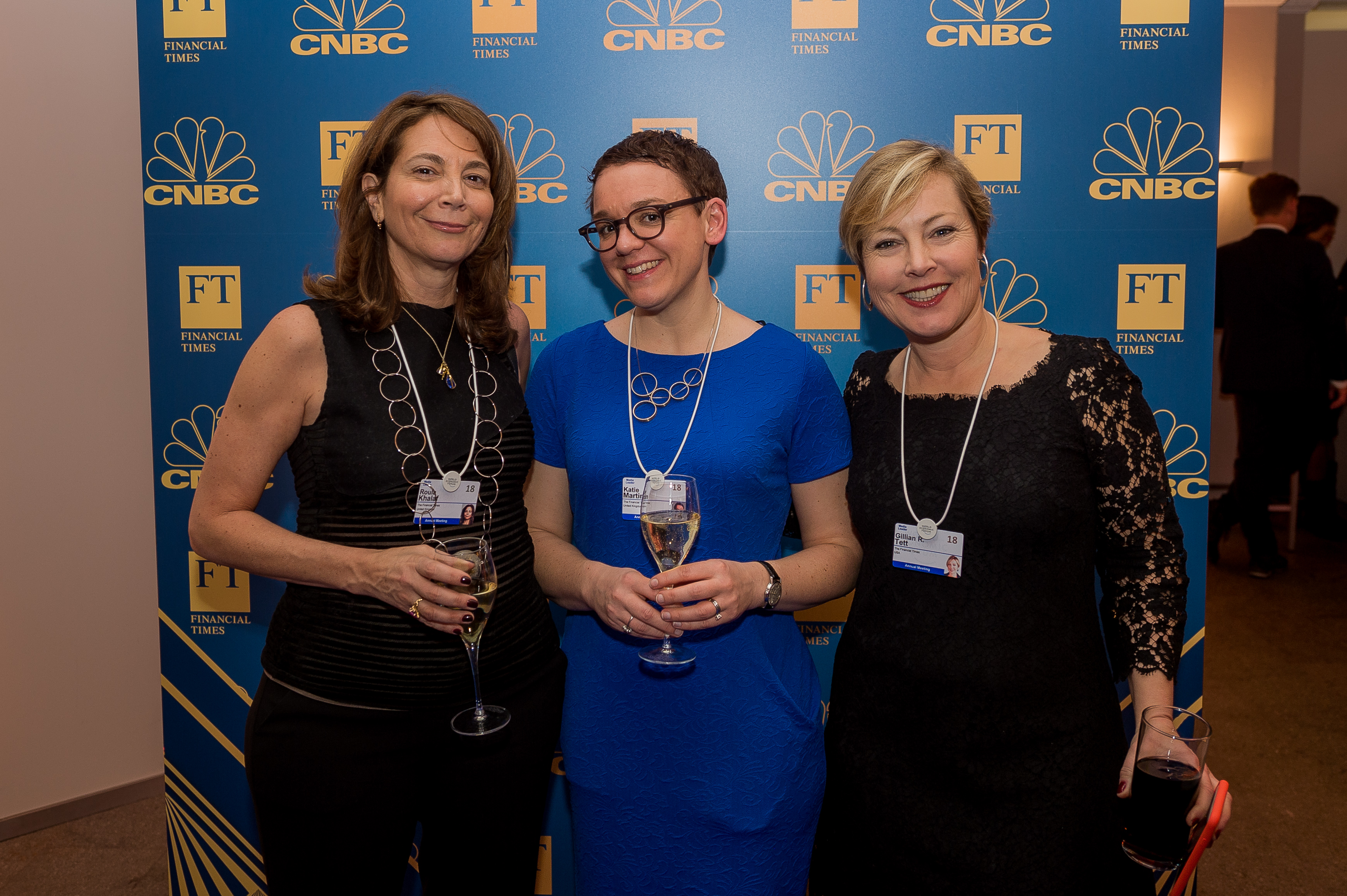 Roula Khalaf, Deputy Editor, Financial Times_ Katie Martin, Editor, fastFT and Gillian Tett, US Managing Editor, Financial Times